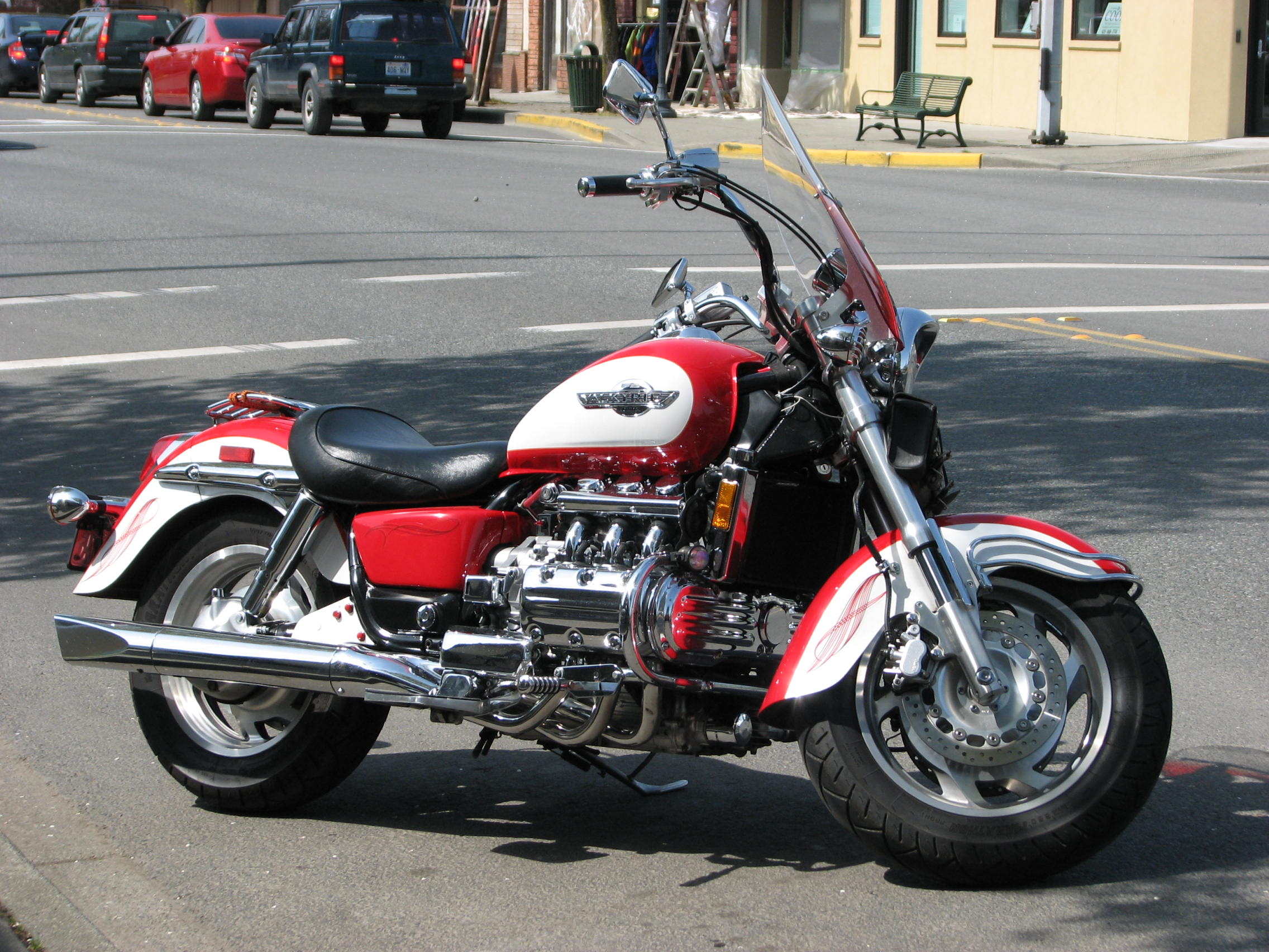 Honda Valkyrie parked in North Bend, Washington